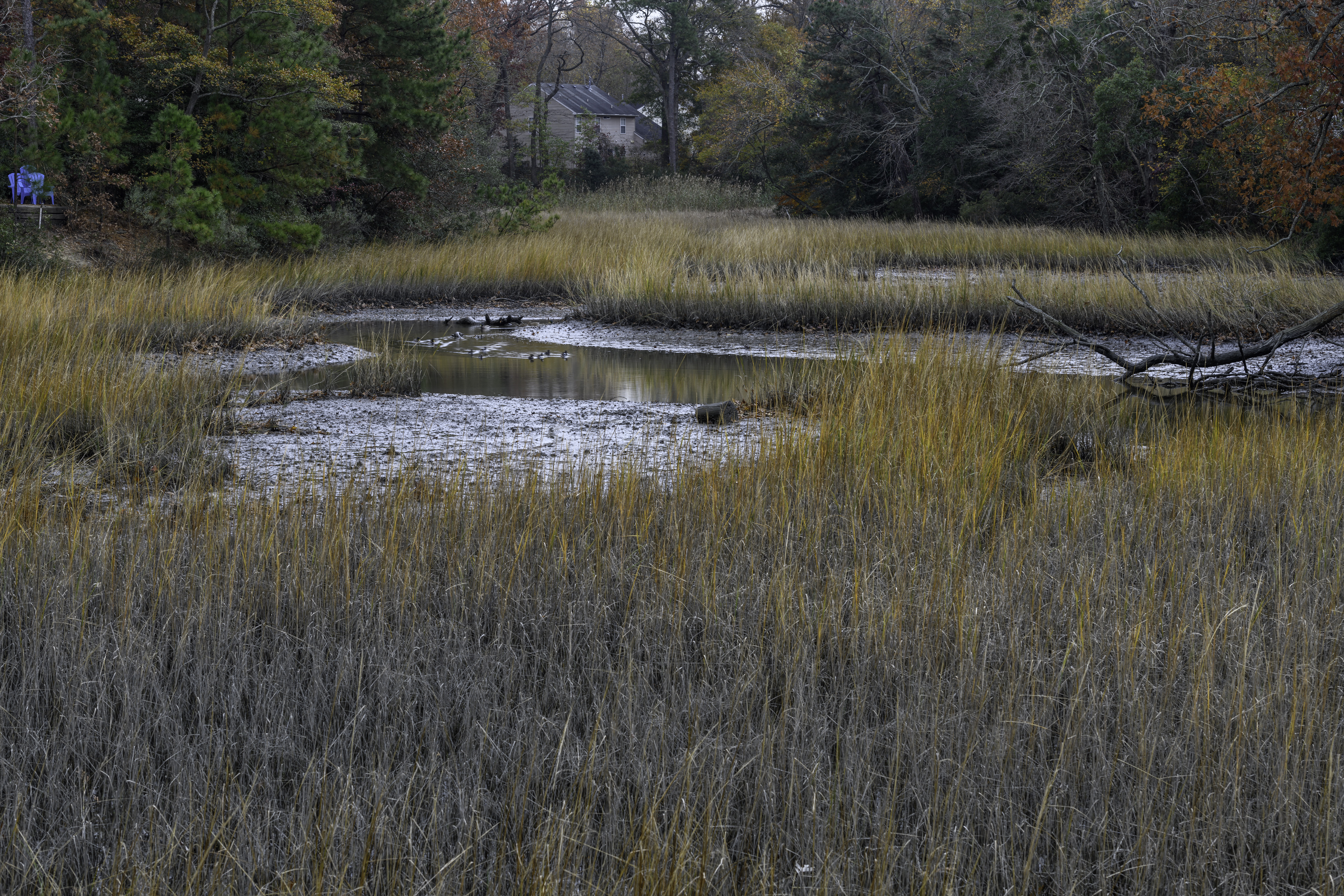 Salt Marsh at Hoffler Creek Wildlife Preserve, Portsmouth, Virginia.